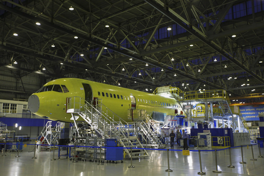 MC-21 on the assembly line at Irkut